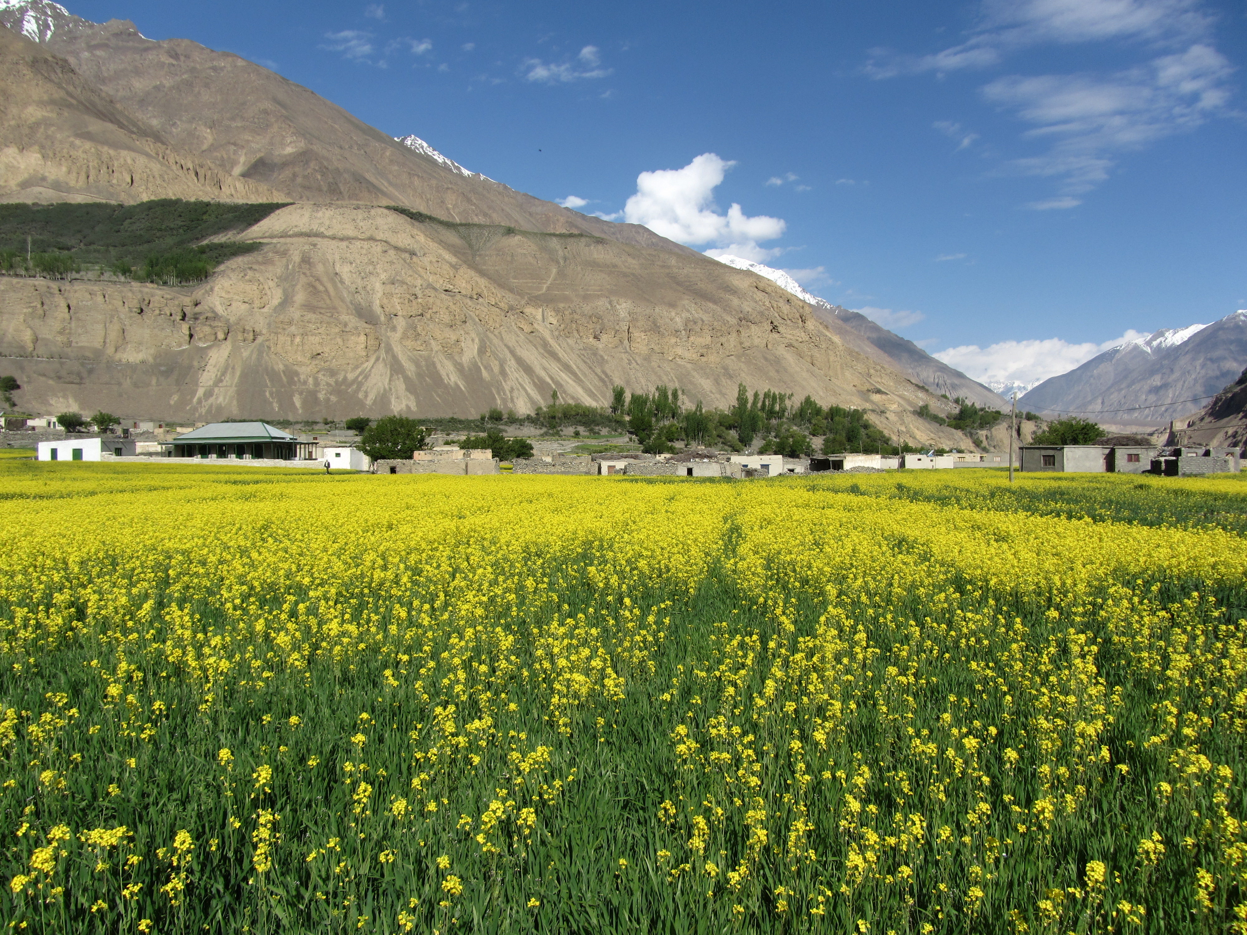 The beauty of summer in Shimshal valley of Gilgit-Baltistan in Pakistan